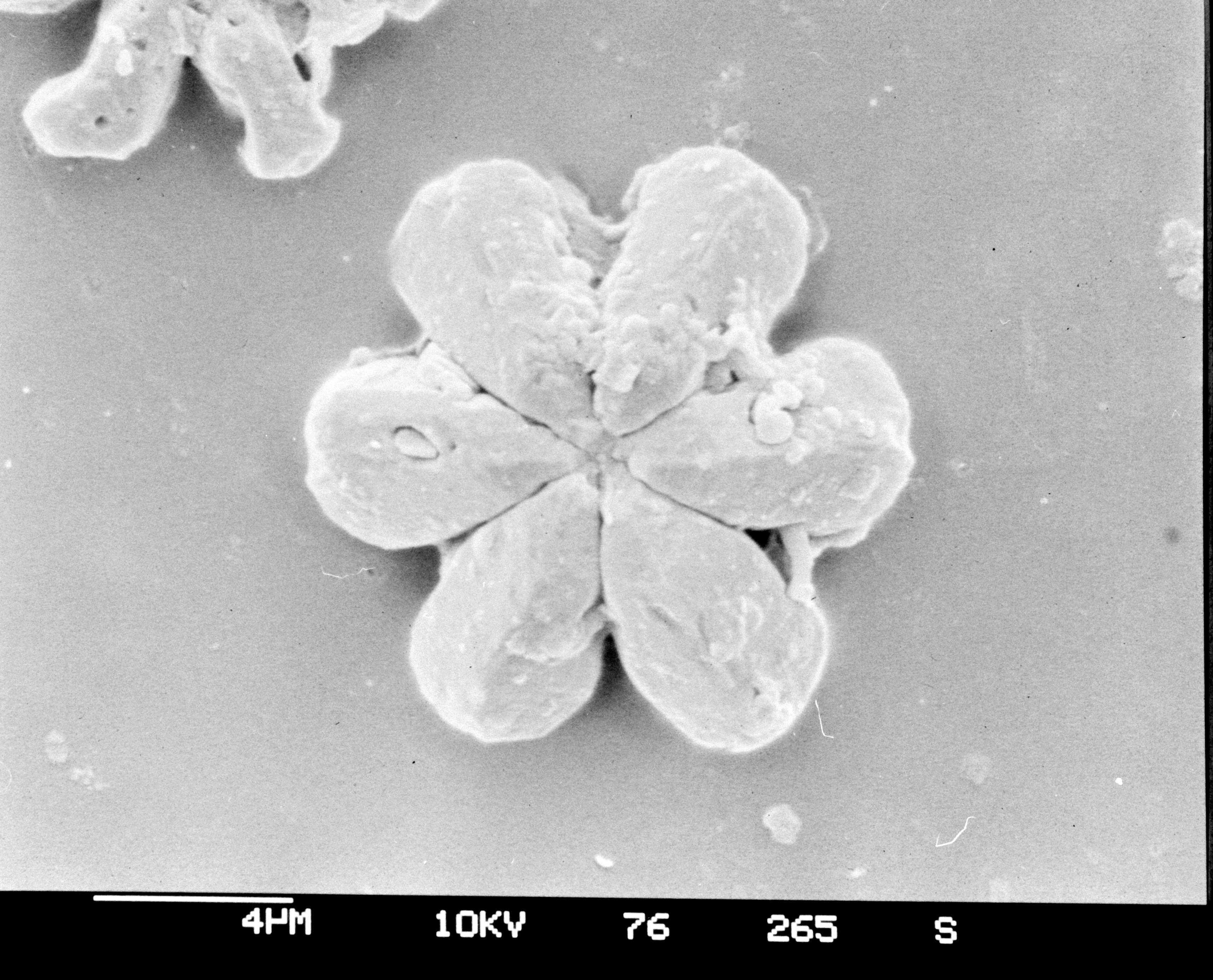 Microfossils from a sediment core of the Deep Sea Drilling Project (DSDP), Discoaster species (diageneticaly altered)